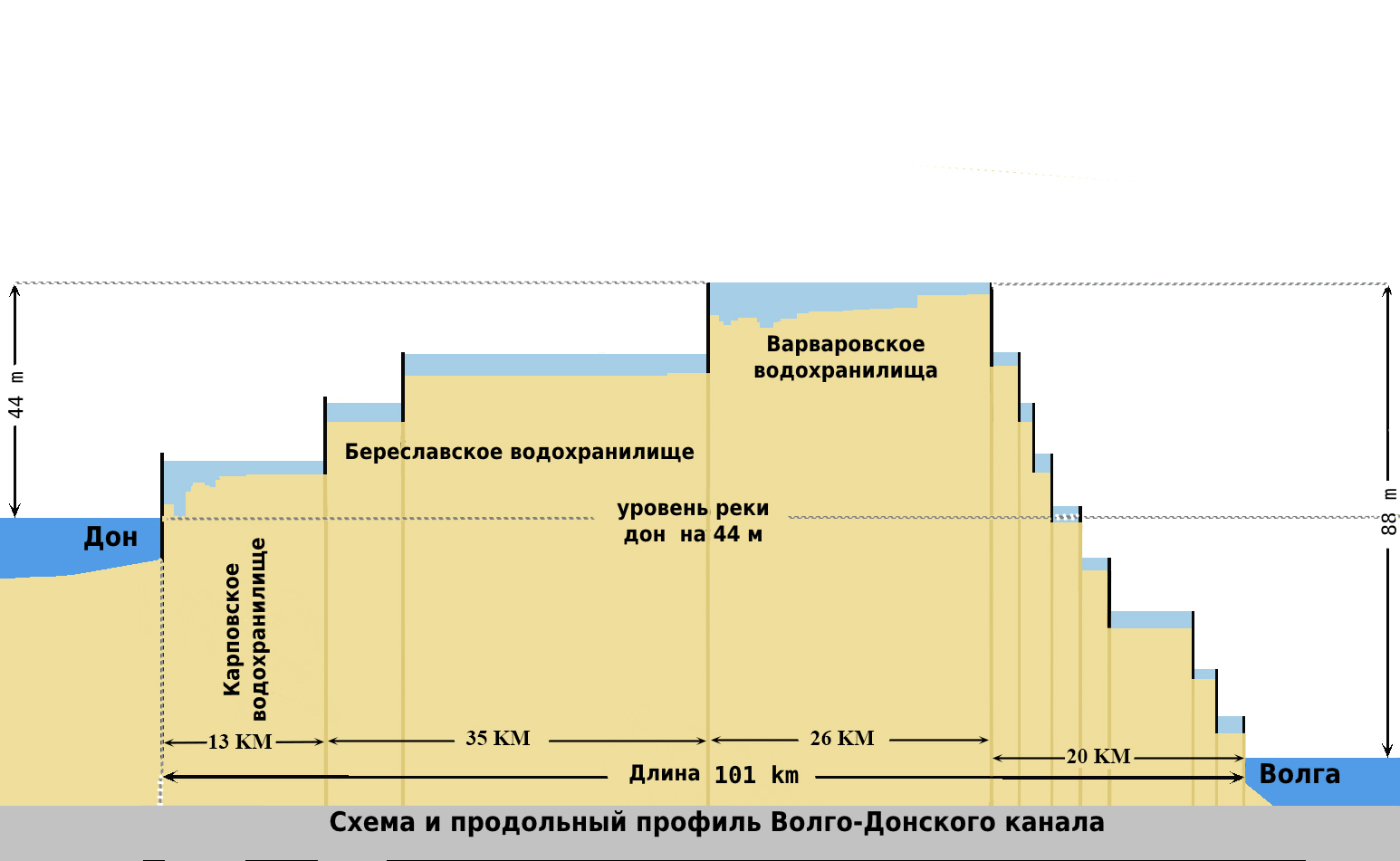 Profile of Volga–Don Canal